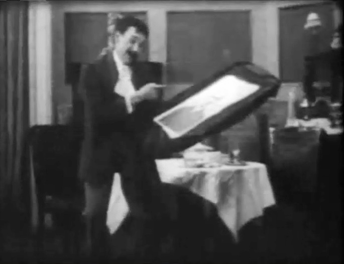 Mack Sennett as Jack in Lucky Jim (1909)